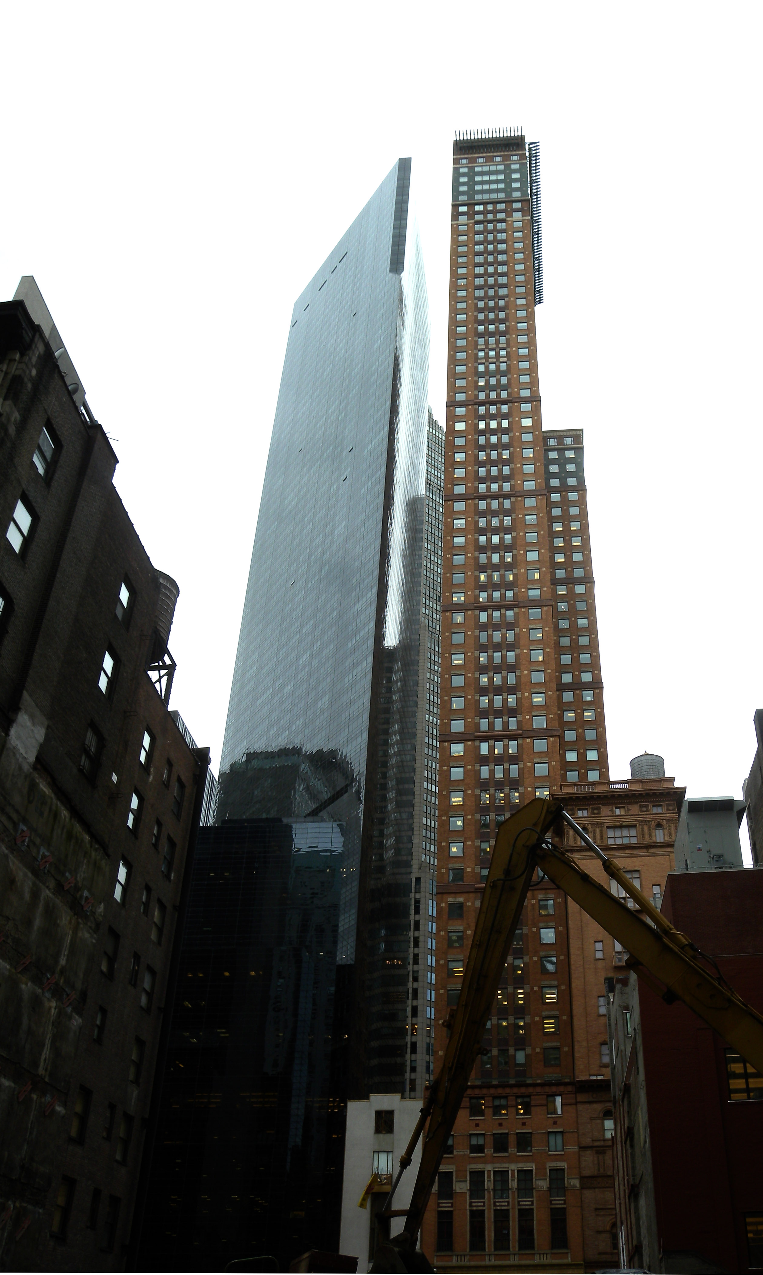 Metropolitan Tower (left) and Carnegie Hall Tower (right) seen from 58th Street, through a gap for a future skyscraper, on a cloudy afternoon.